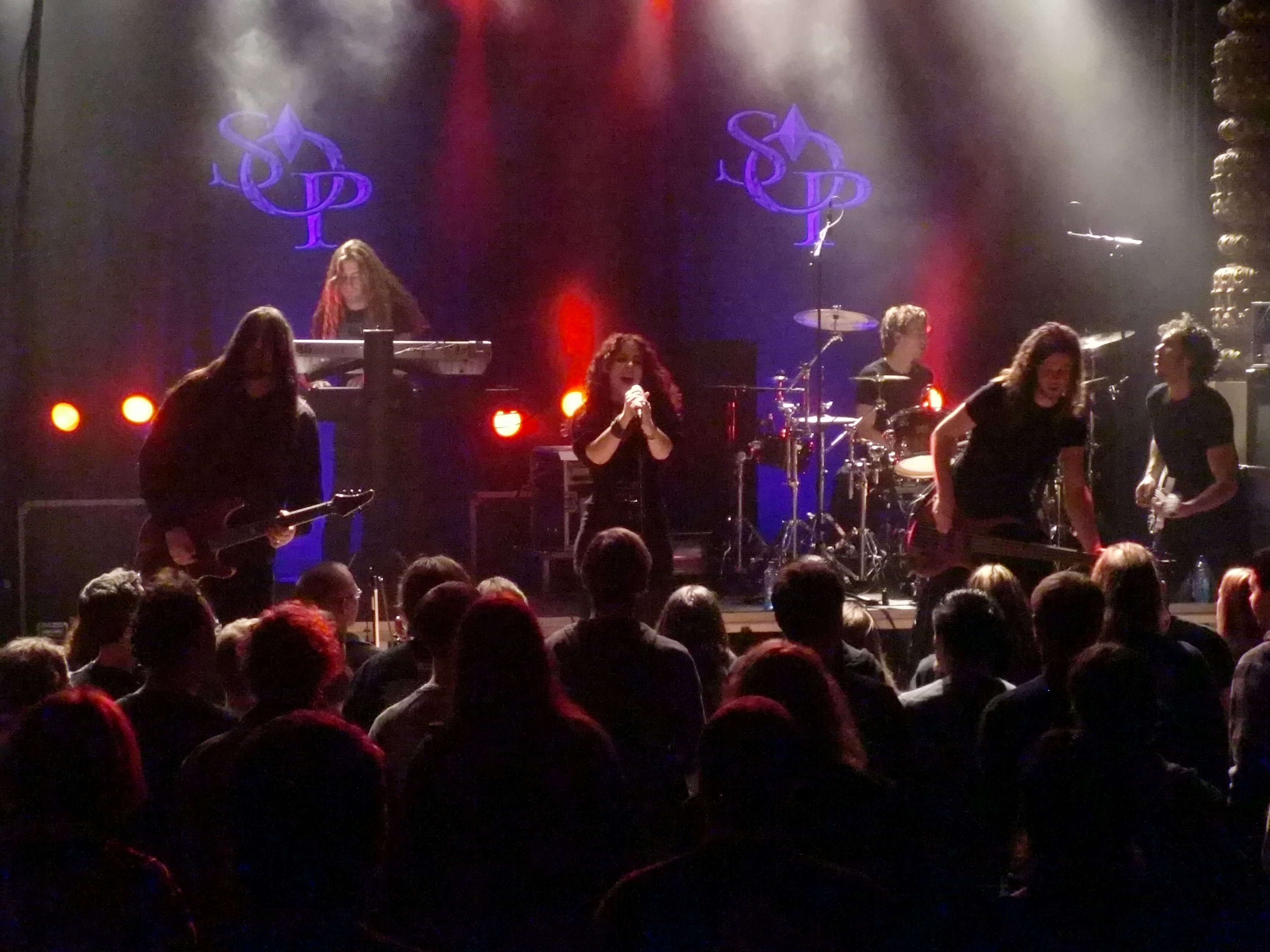 Stream of Passion concert at Luxor Live, Arnhem, Netherlands, 11 December 2009.